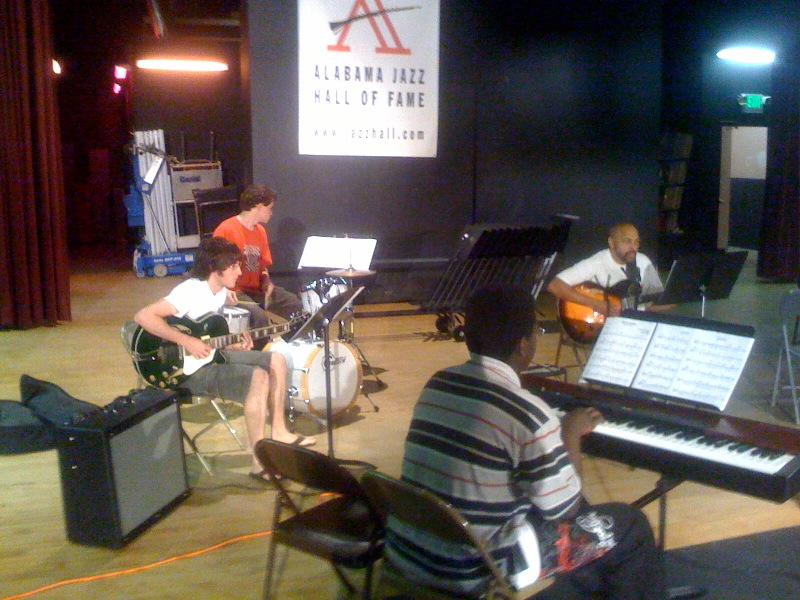 Members of Alabama Jazz Hall of Fame (Free) Saturday Jazz Class working on the song, "Chega de Saudade," instructed by Ray Reach. May 23, 2009.